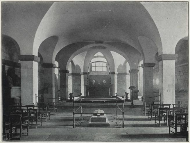 Crypt Chapel of St. Paul's Cathedral, London. In the foreground is the burial place of Dean Milman, marked by a slab with a cross wrought upon its surface. To the west of this, not shown in this view, is the grave of Dr. Liddon. In the Aisles to the right and left are seen a few fragments of monuments from the old Cathedral, scanty relics, spared by the great fire of 1666 and by the ruthless hand of the destroyer.